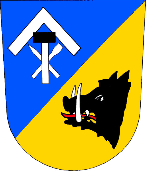 Municipal coat of arms of Štěnovice village, Plzeň-South District, Czech Republic.